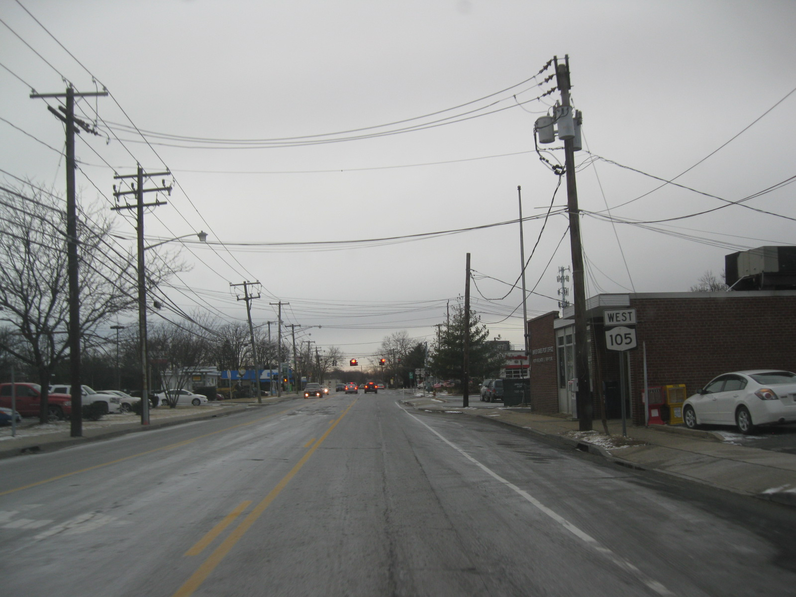 New York State Route 105 westbound approaching the intersection with New York State Route 106 in North Bellmore, New York.